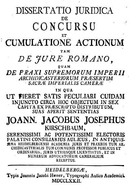 Johann Jakob Joseph Kirschbaum, Juraprofessor in Heidelberg, Titelblatt einer Abhandlung, Heidelberg, 1772